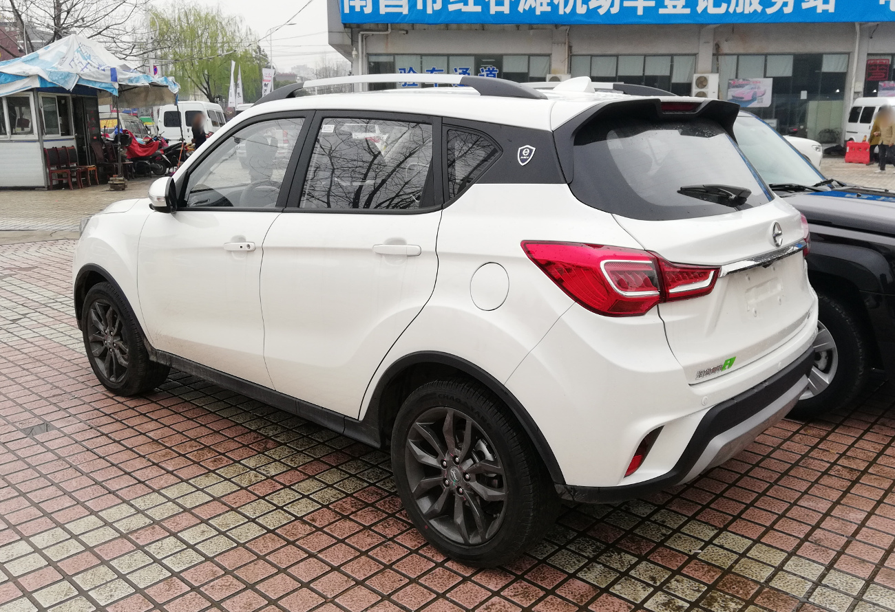 JMEV E400 photographed in Nanchang, Jiangxi province, China.